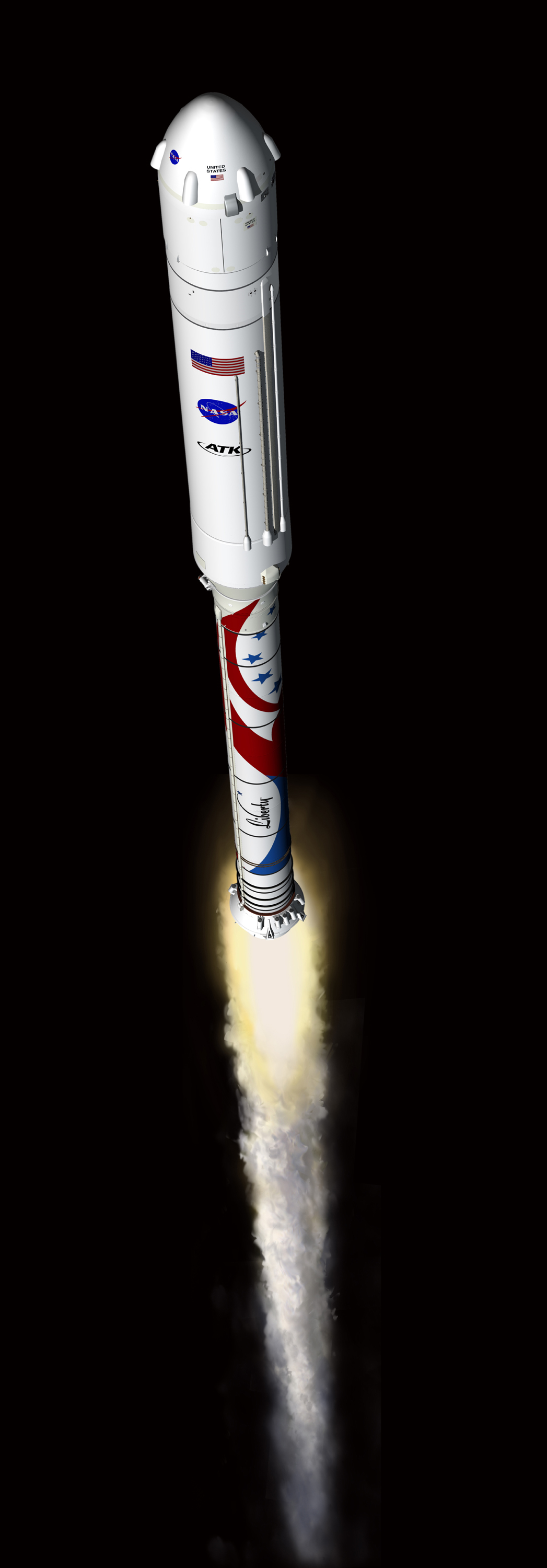 CAPE CANAVERAL, Fla. – This is an artist's conception of the Liberty Launch Vehicle under development by Alliant Techsystems Inc. (ATK) of Promontory, Utah, for NASA's Commercial Crew Program (CCP). In 2011, NASA and ATK entered into an unfunded Space Act Agreement during Commercial Crew Development Round 2 (CCDev2) activities to mature the design and development of a crew transportation system with the overall goal of accelerating a United States-led capability to the International Space Station. The goal of CCP is to drive down the cost of space travel as well as open up space to more people than ever before by balancing industry’s own innovative capabilities with NASA's 50 years of human spaceflight experience. Six other aerospace companies also are maturing launch vehicle and spacecraft designs under CCDev2, including Blue Origin, The Boeing Co., Excalibur Almaz Inc., Sierra Nevada Corp., Space Exploration Technologies (SpaceX), and United Launch Alliance (ULA). For more information, visit